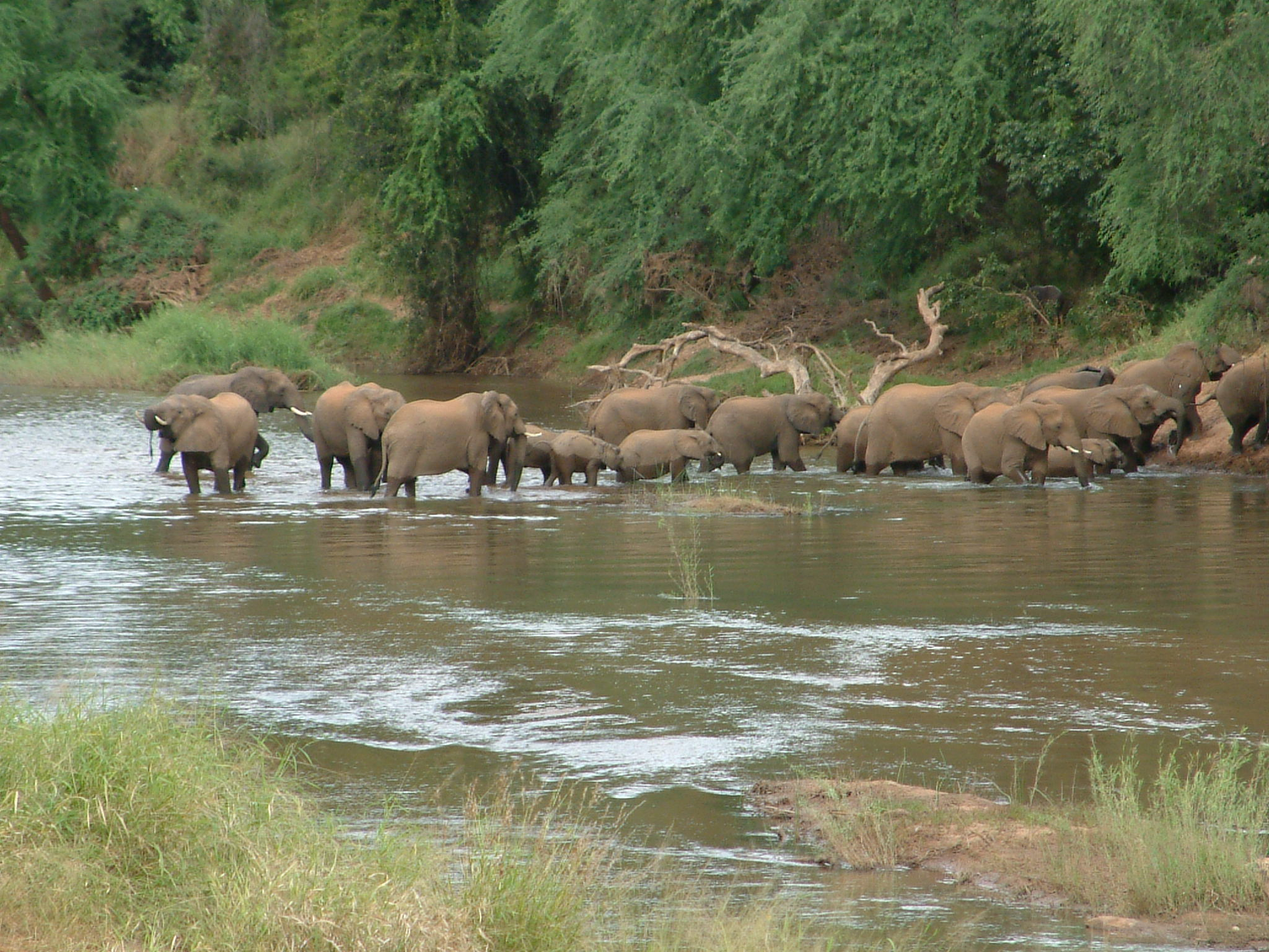 Elephant crossing the Luvuvhu. Photo from Lee Berger's Lanner Gorge expedition.